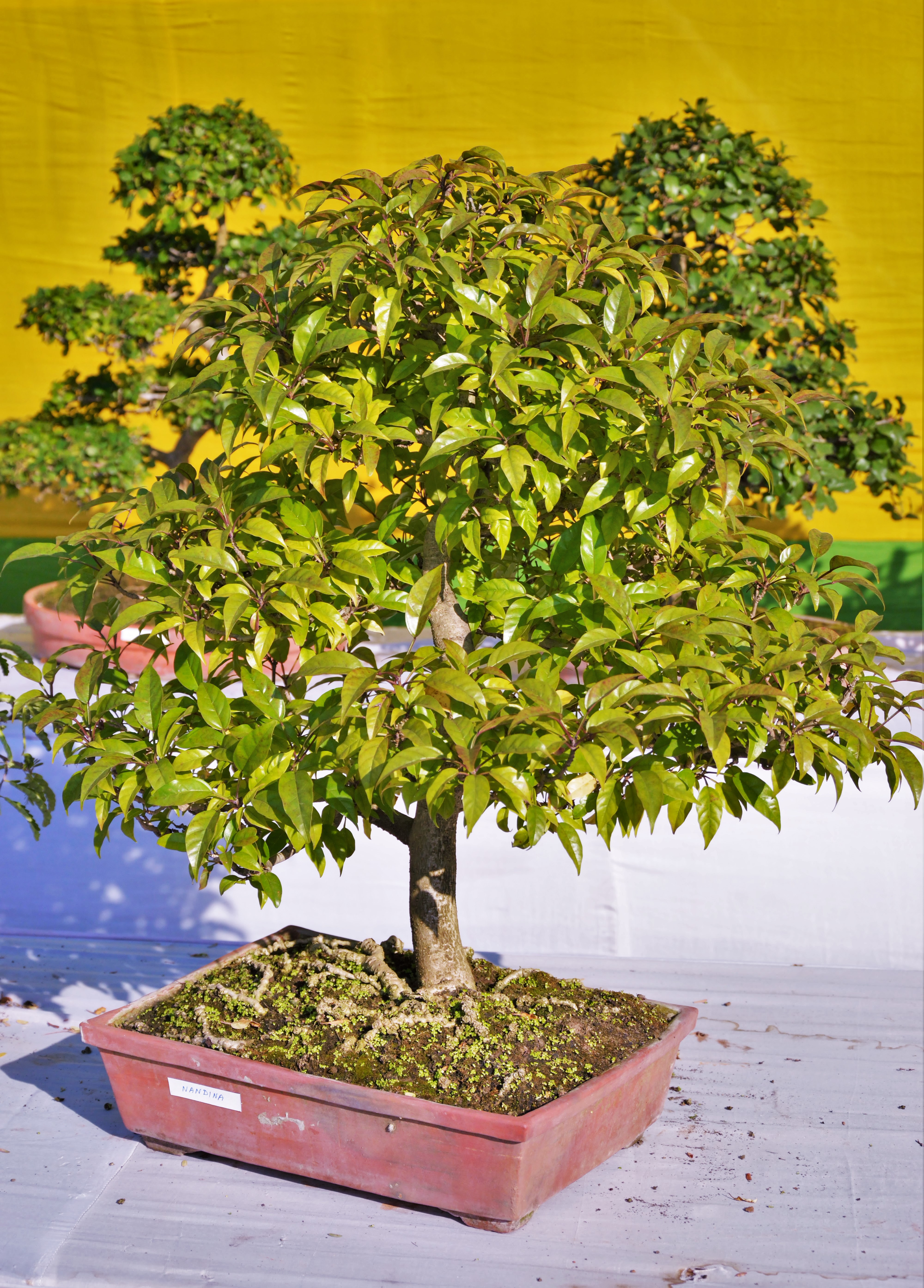 The 'House Plant Show - 2013' was held at the garden of the Agri-Horticultural Society of India, Alipore, Kolkata, from 7 to 10 November 2013.